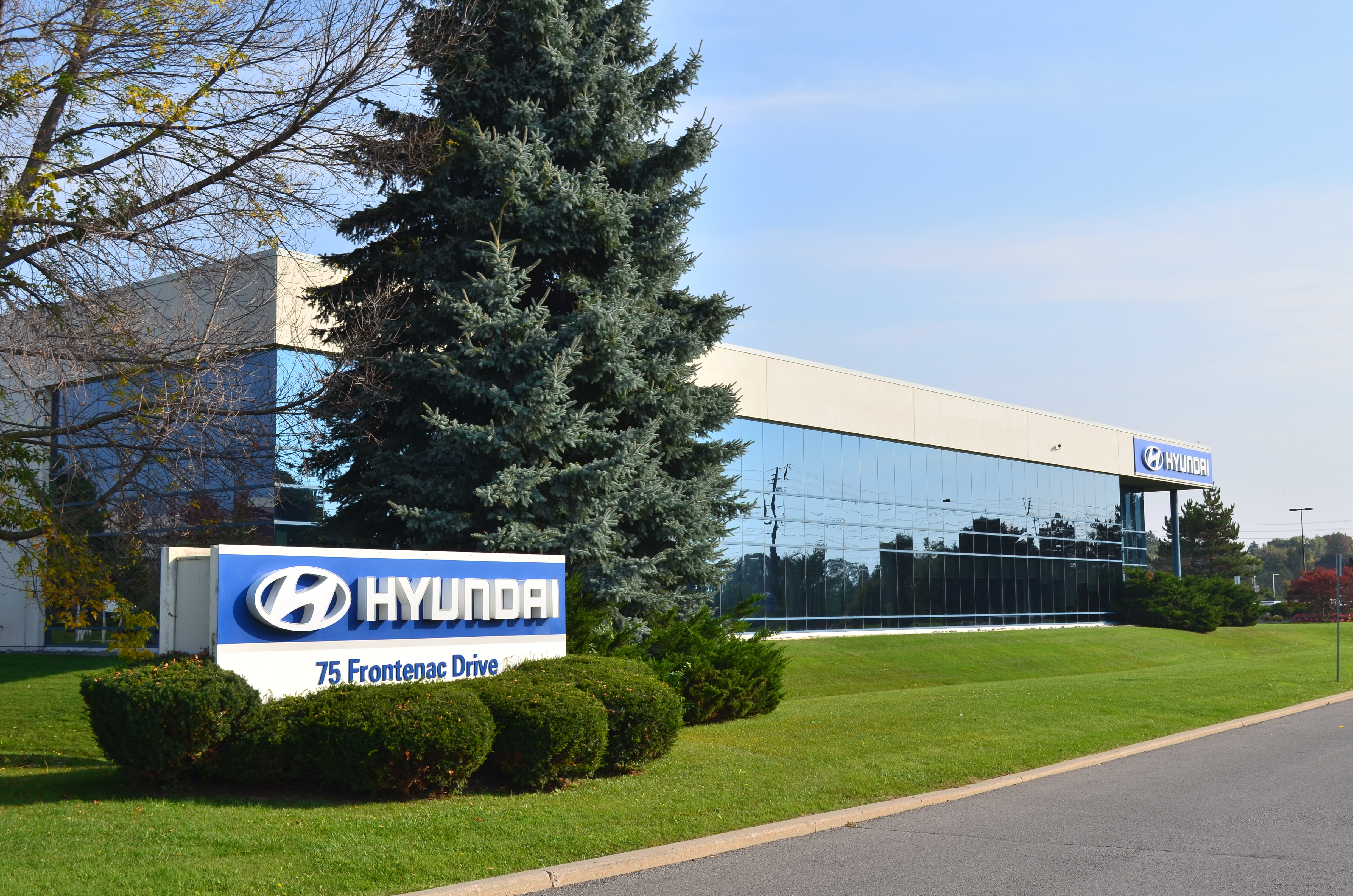 Hyundai Auto Canada Corp